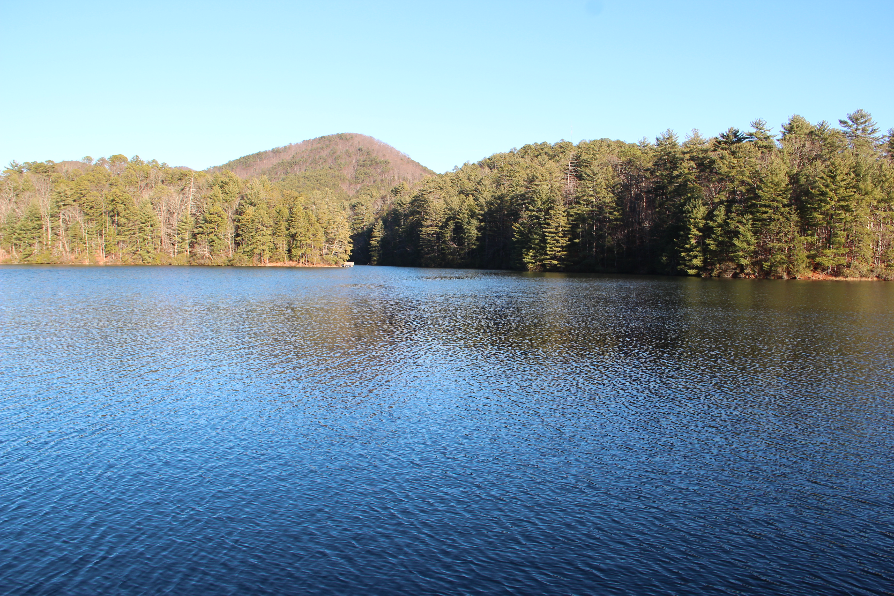 Unicoi State Park in the winter